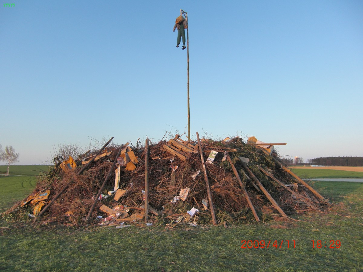 "Ostermobrenna", traditional easter fire in Kammerberg (Fahrenzhausen), Bavaria, Germany